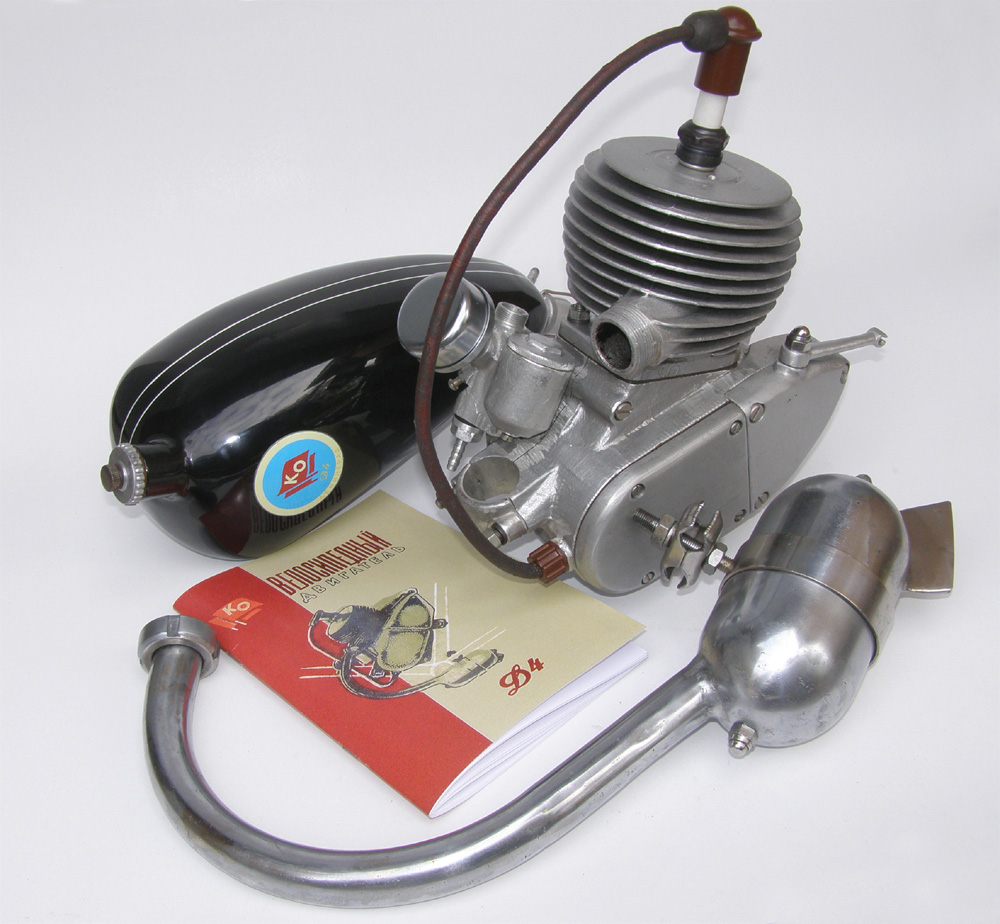 USSR bicycle engine D-4, 1957